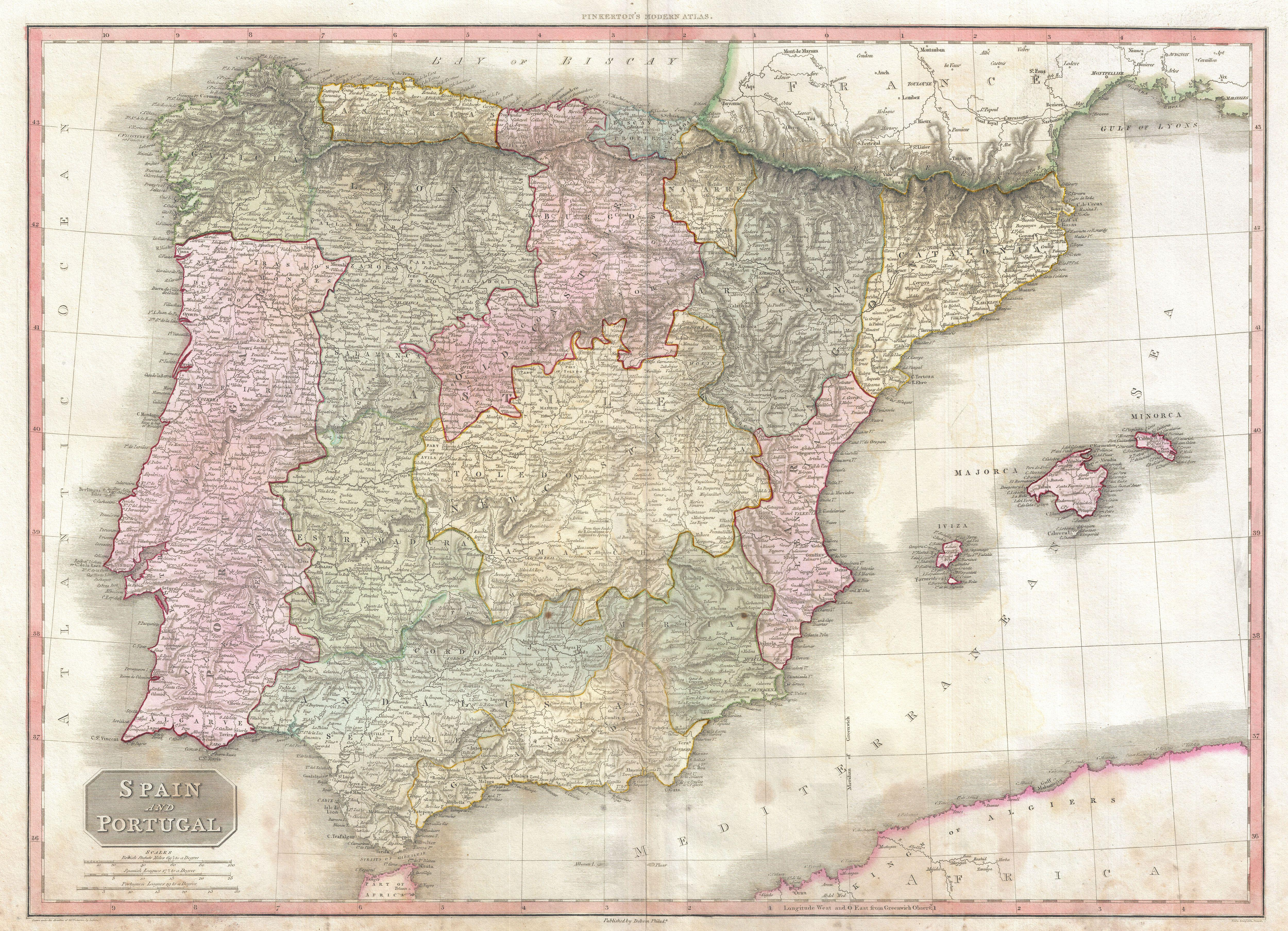 John Pinkerton's highly decorative map of Spain and Portugal, published 1818. Covers the entire region in considerable detail with political divisions and color coding at the regional level. Includes parts of adjacent France and Africa. The Balearic Islands of Ibiza, Majorca, and Minorca are shown prominently. Identifies cities, towns, castles, important battle sites, castles, swamps, mountains and river ways. Lower left hand quadrant features three scales, British Miles, Spanish Leagues, and Portuguese Leagues. Drawn by L. Herbert and engraved by Samuel Neele under the direction of John Pinkerton. This map comes from the scarce American edition of Pinkerton’s Modern Atlas, published by Thomas Dobson & Co. of Philadelphia in 1818.